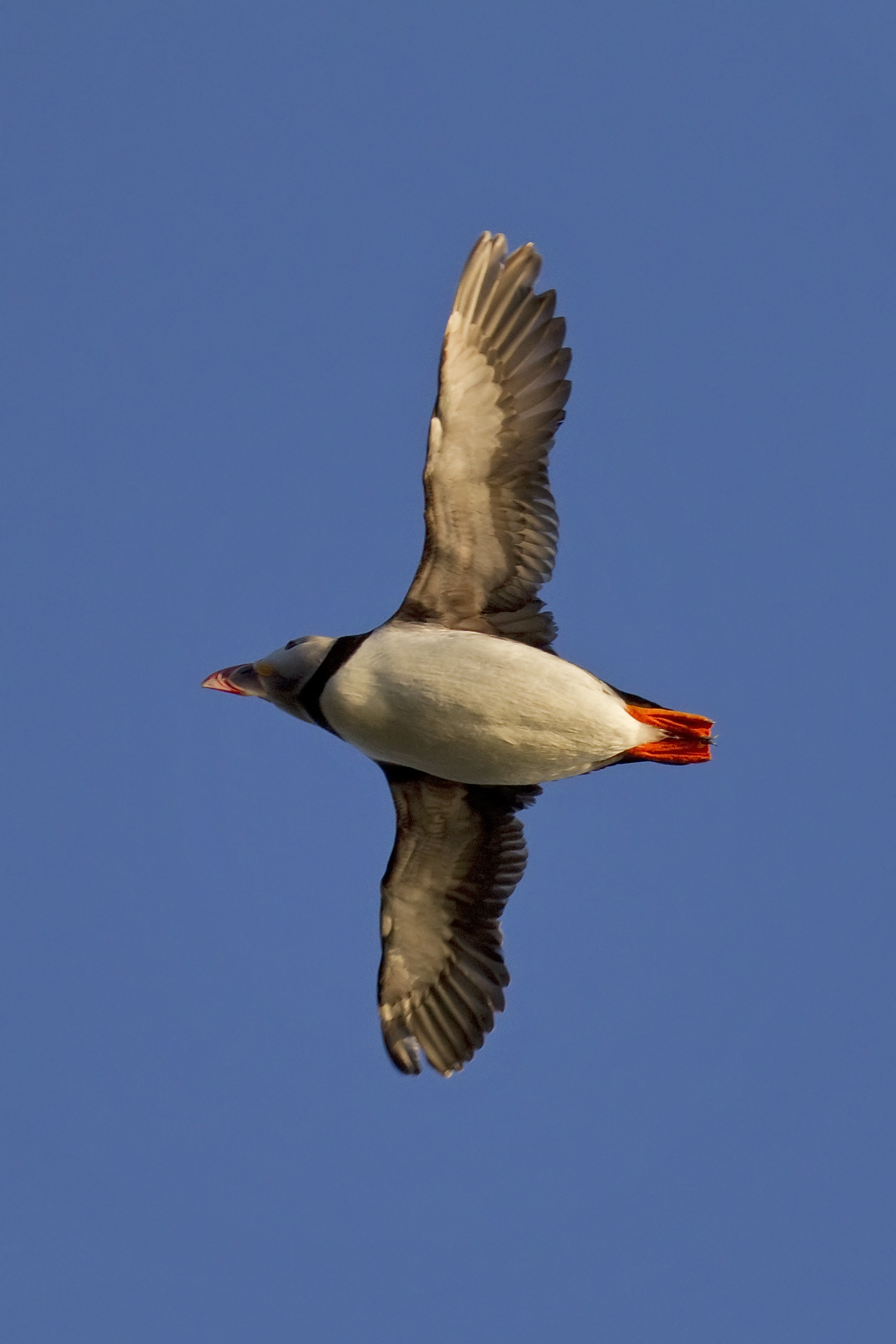 Atlantic Puffin